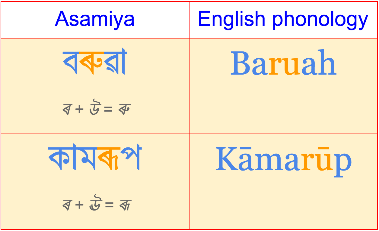 Two common variations of Asamiya Rô